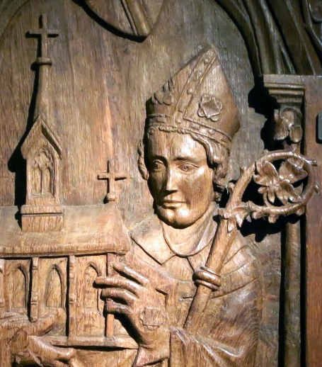 Detail figur of archbishop Balduin of Trier, around at 1340, wooden chair out of a cloister at Trier. Now Museum of cathedral at Trier.